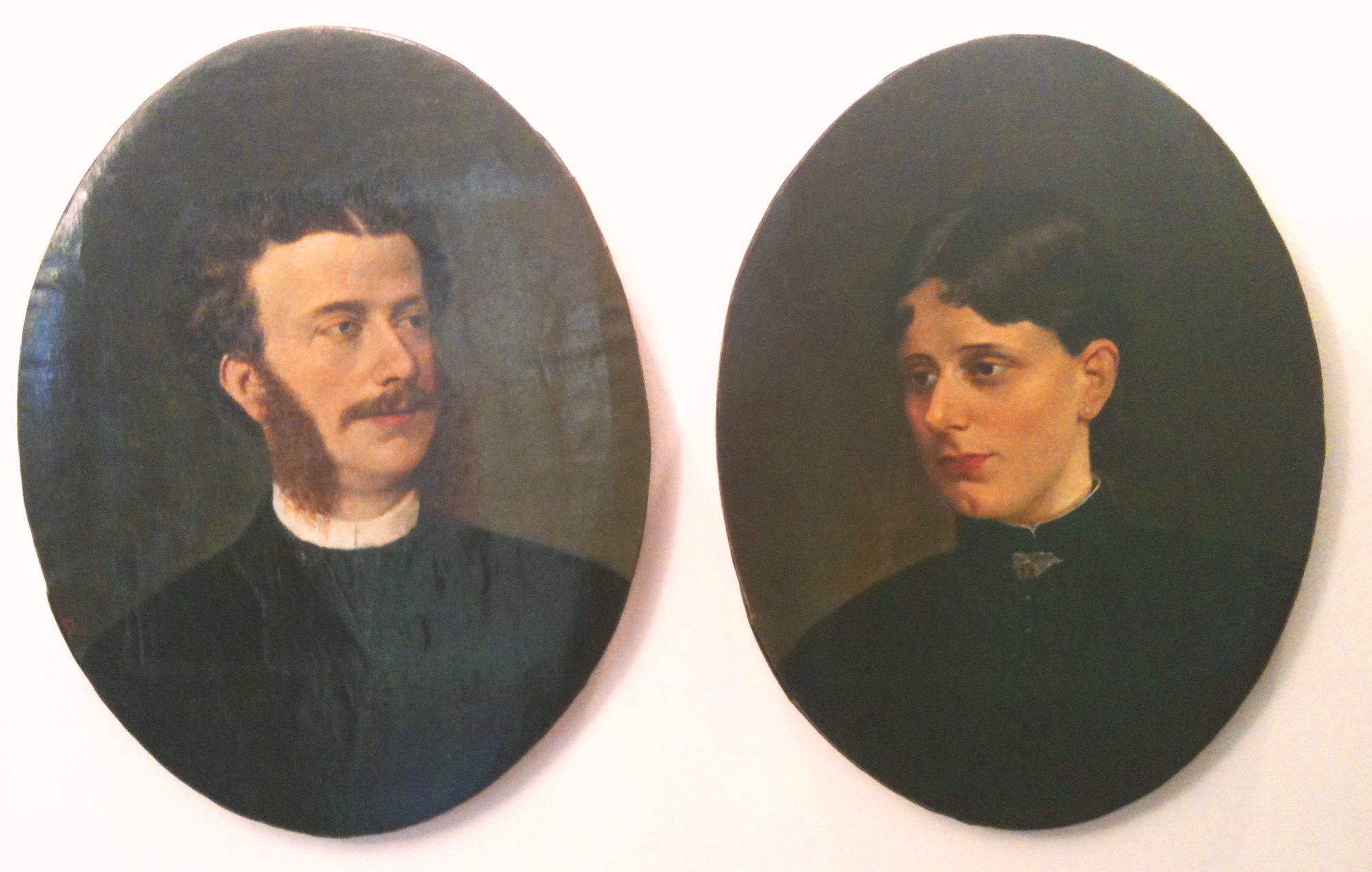 Portraits of Giangiorgio Trissino dal Vello d'Oro and his wife Elena di Thiene, author Vittorio Pittaco, period end 1800